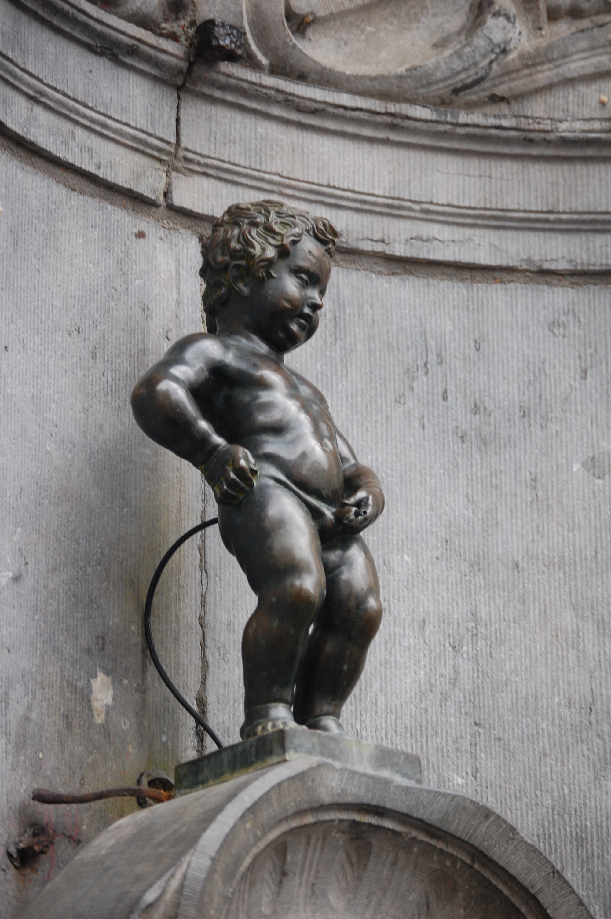 Manneken Pis